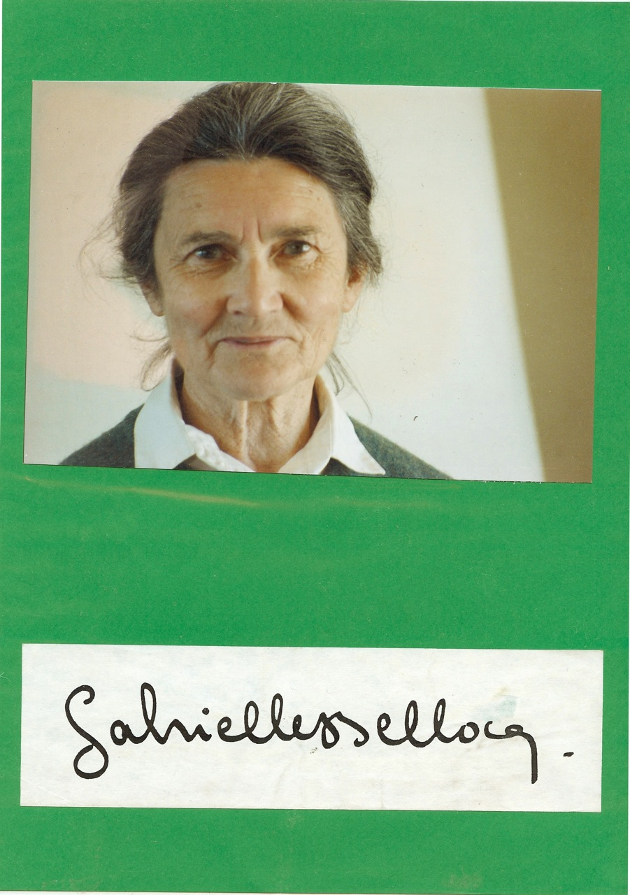 Photograph and signature of Gabrielle Bellocq, French pastellist artist.